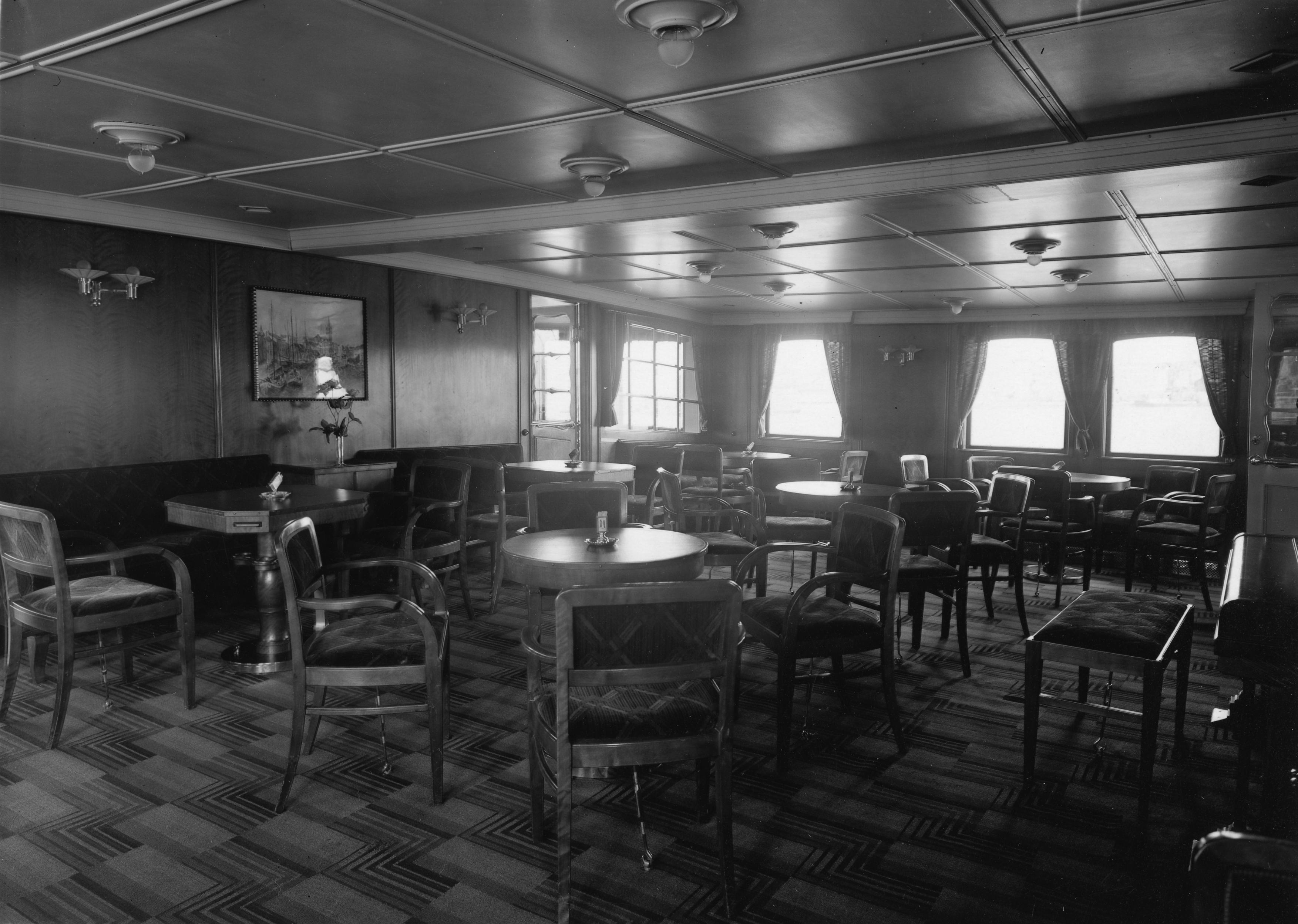 Passengers' quarters onboard s/s Polaris II, 1934